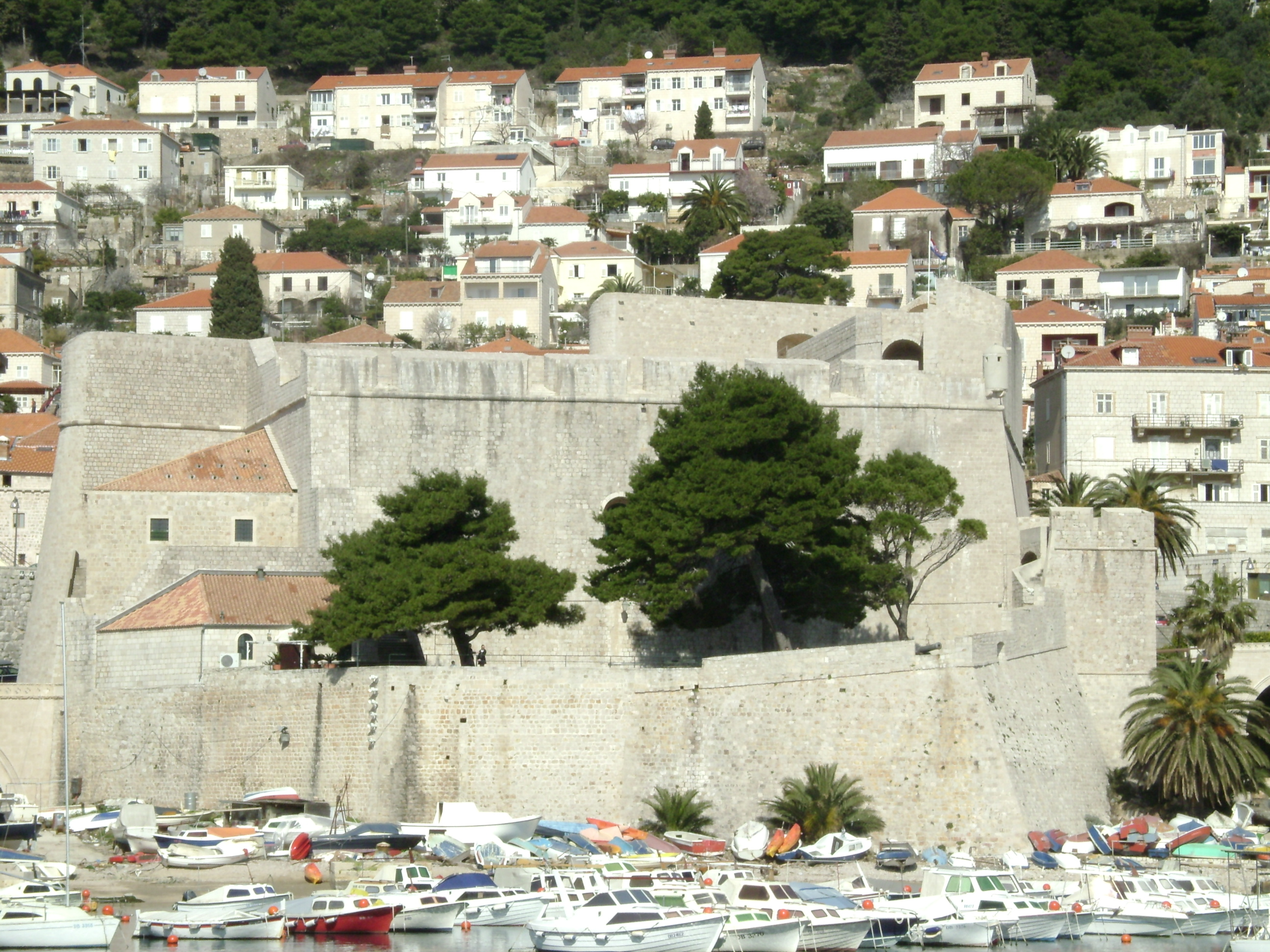 Dubrovnik, old town, monuments Revelin